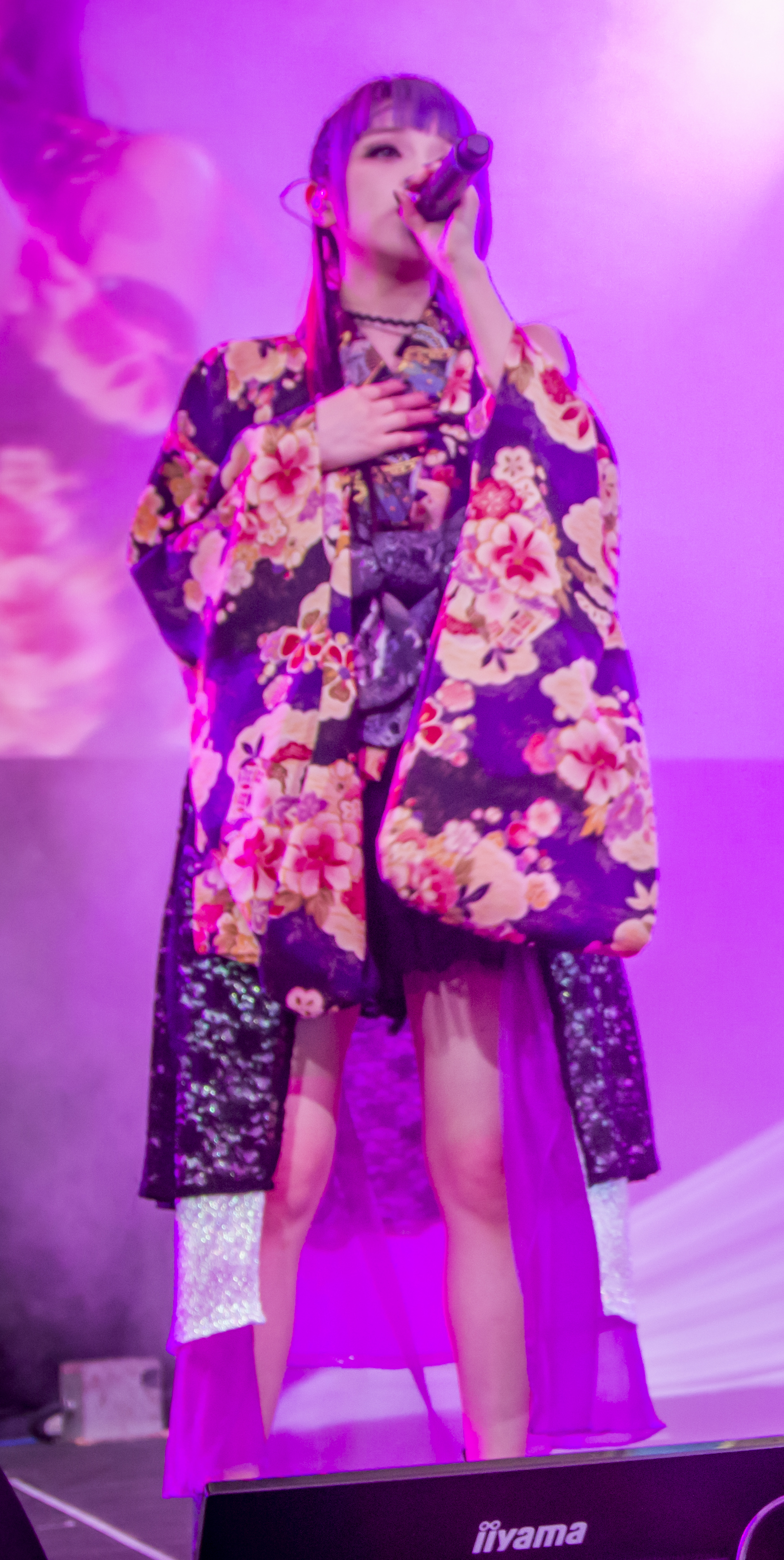 An image of the band GARNiDELiA at the 2016 J-Pop Summit, cropped to show just singer MARiA (Mai Mizuhashi)